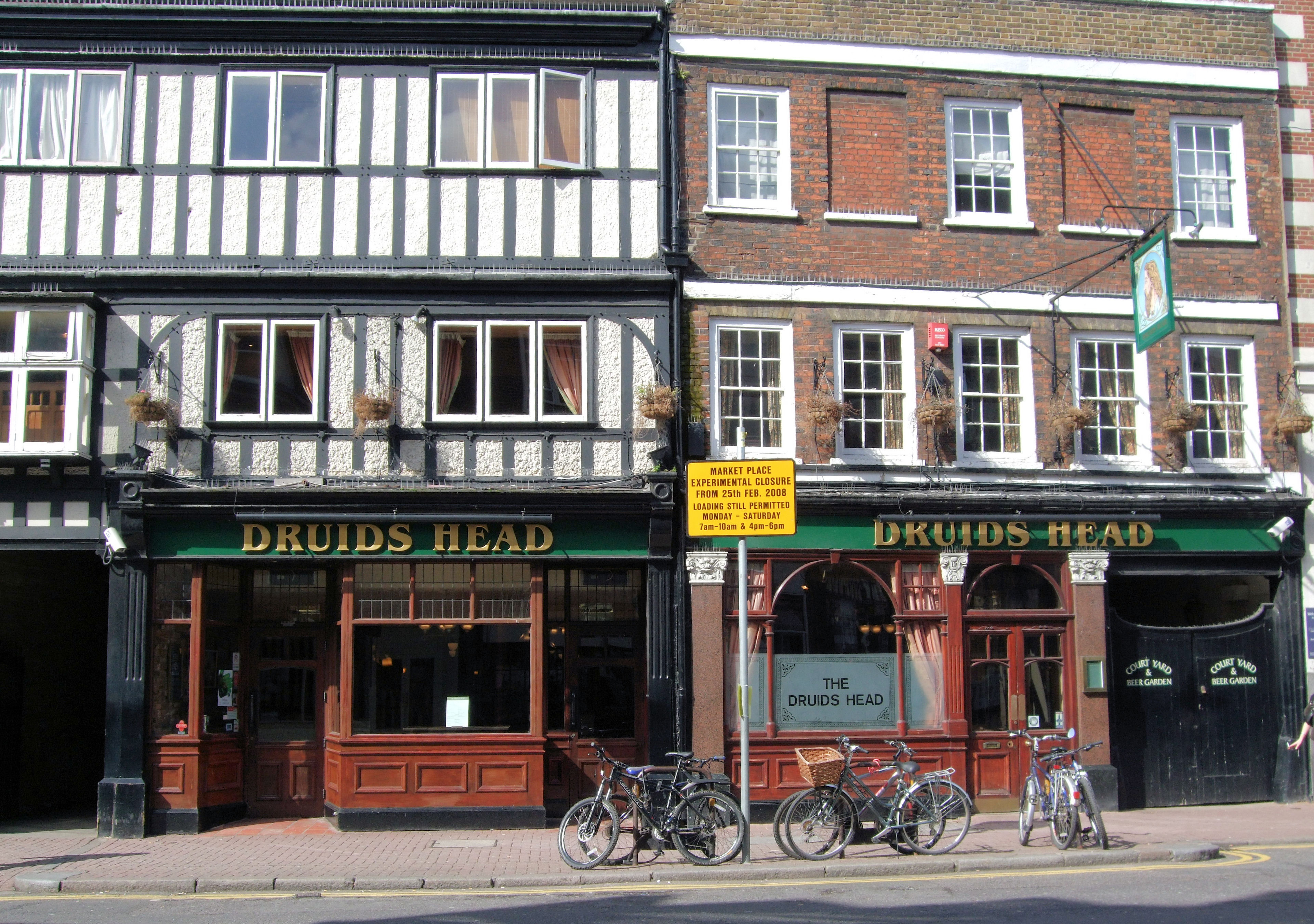 The Druid's Head is Kingston's oldest pub dating from the 17th century.